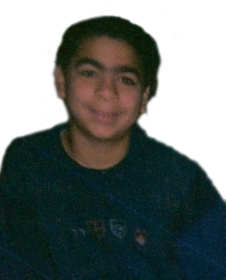 Photo of Abdullah Khadr, copyright released into the public domain by the Khadr family in Toronto.